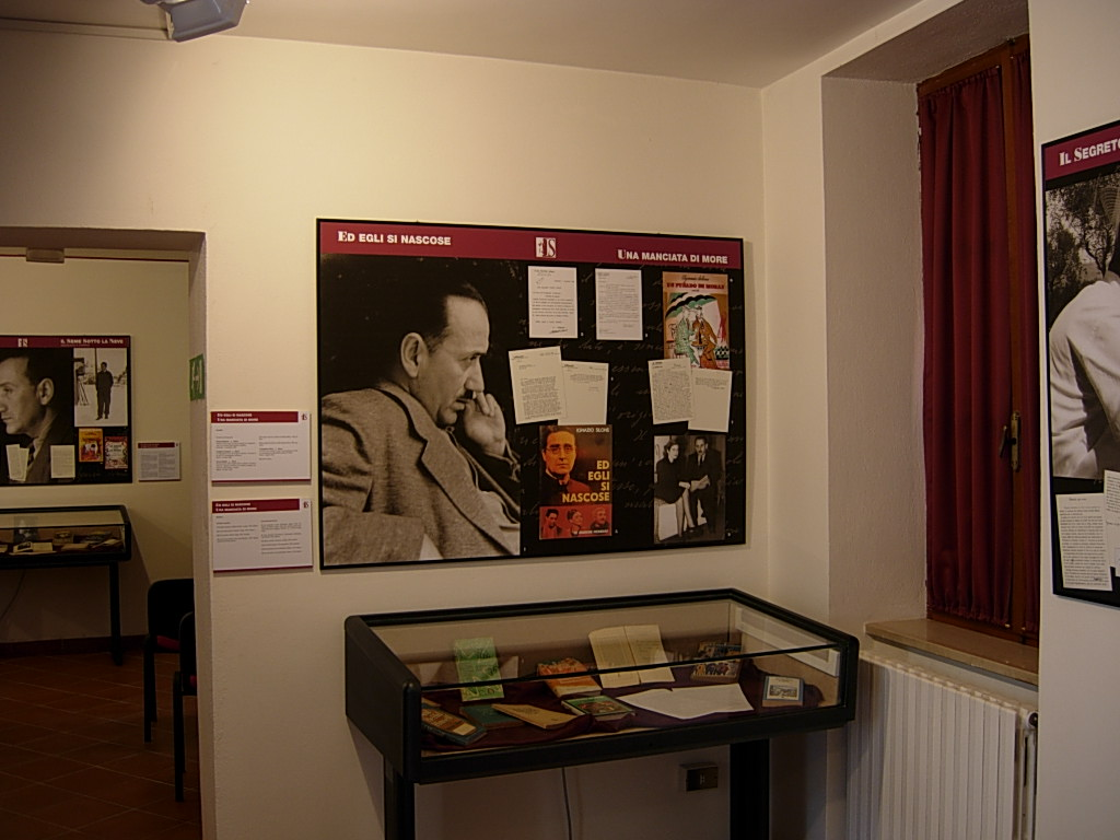 Silone museum, Pescina, Abruzzo, Italy